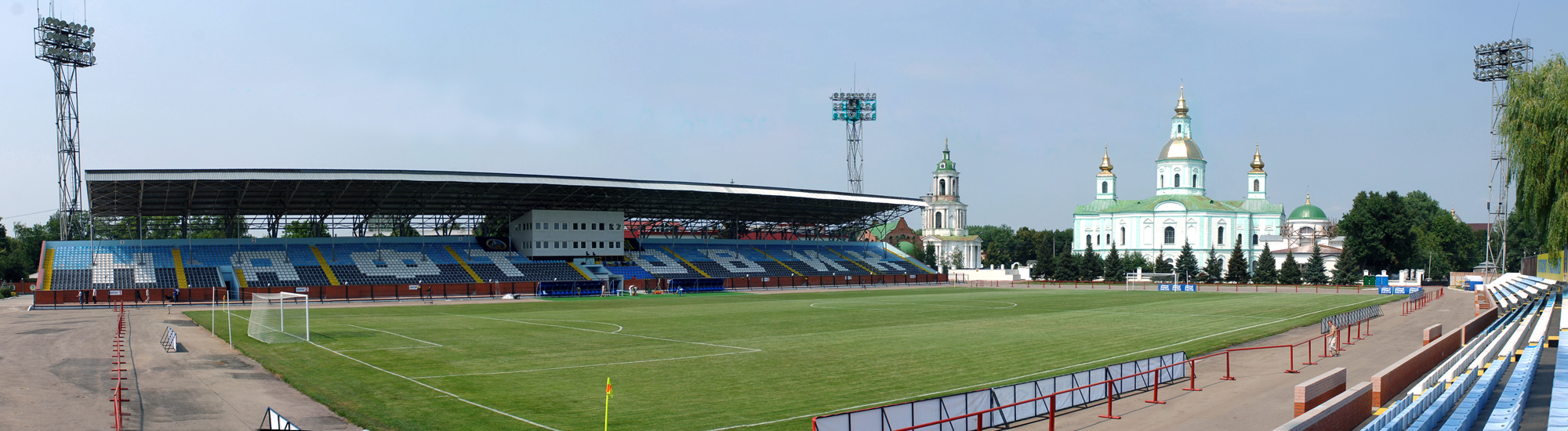 Naftovyk Satdium in Okhtyrka, Ukraine.